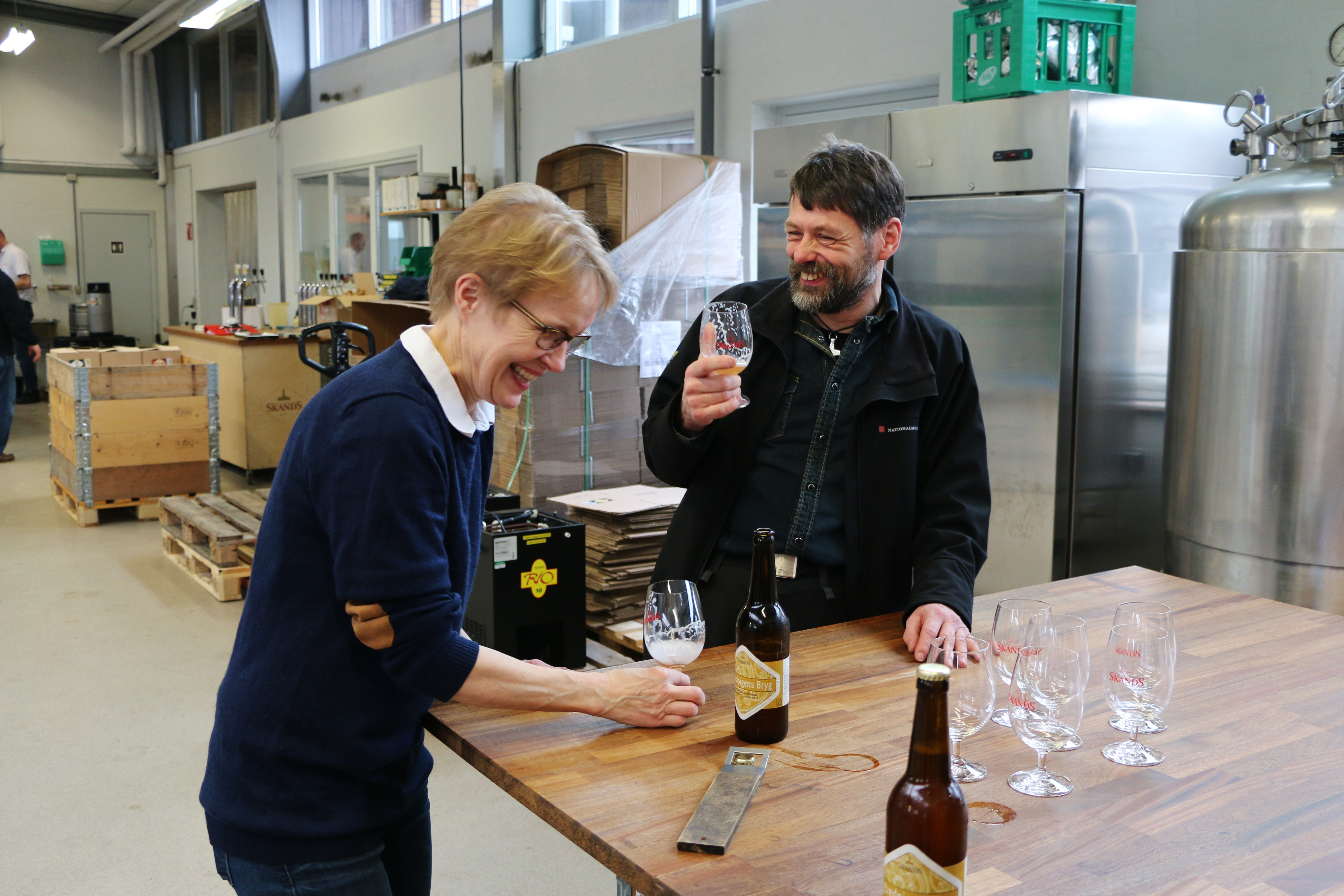 Brewer Birthe Skands of Bryggeriet Skands and museum inspector Peter Steen Henriksen from Nationalmuseet testing Egtvedpigens Bryg, an attempted recreation of the beer for in the Egtved Girl's grace.